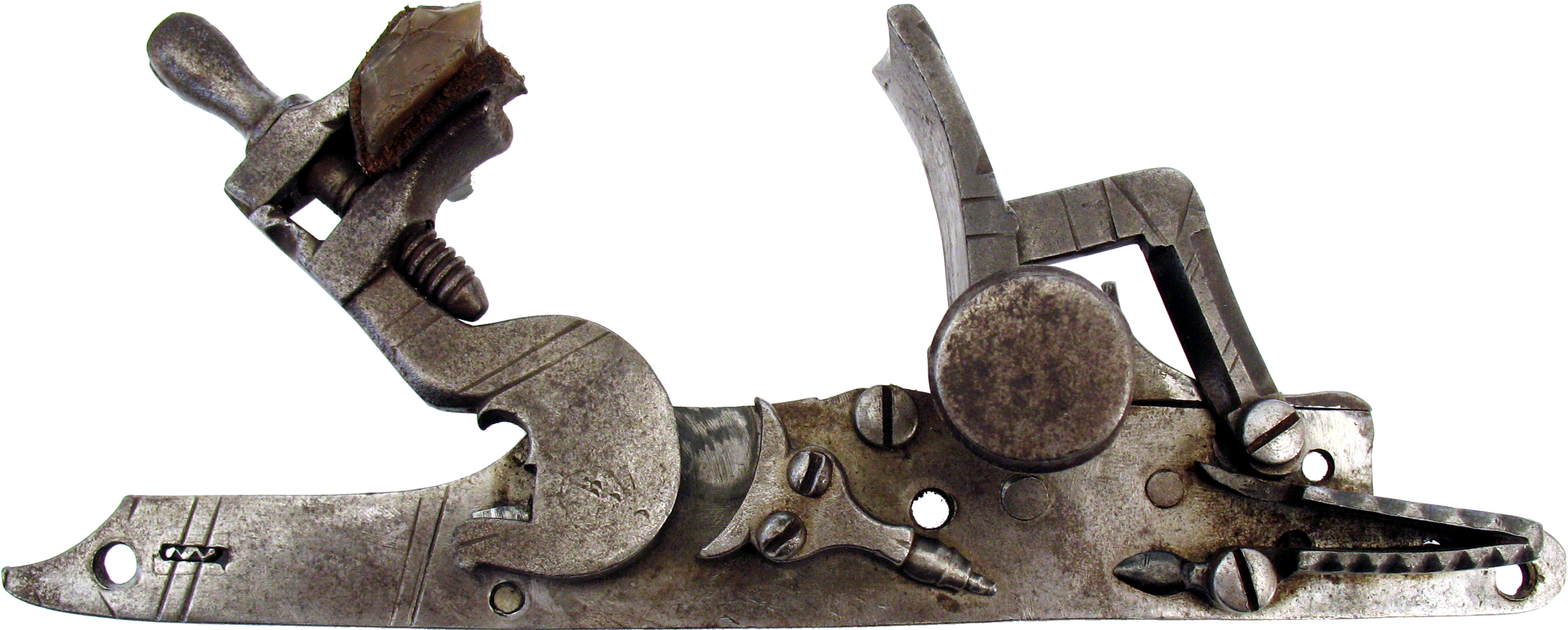 A snaphance lock, cocked, showing the outside of the mechanism